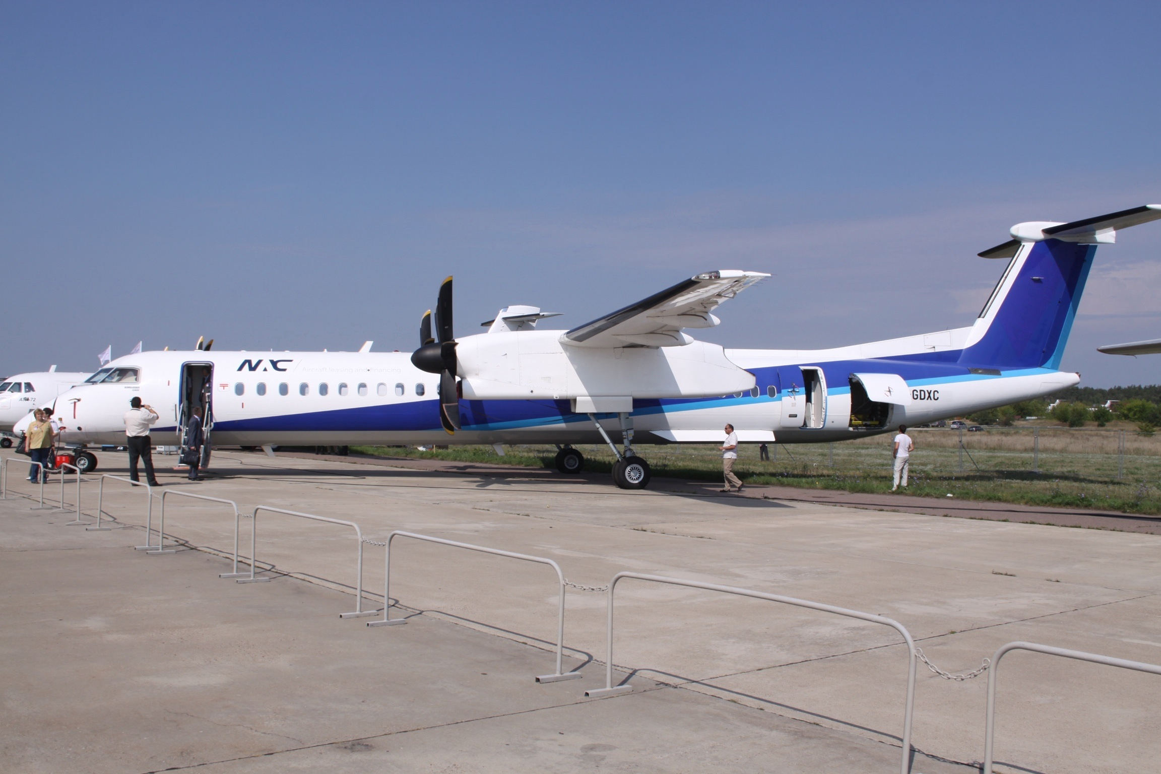 At Moscow Zhukovsky